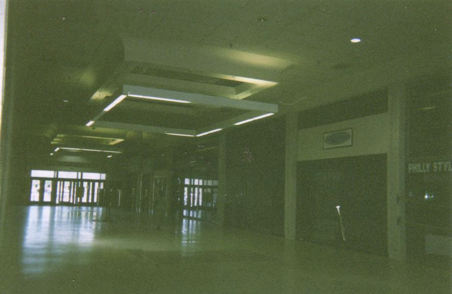 South wing of Maple Hill Mall, picture taken June 2004 by myself shortly before mall demolition.